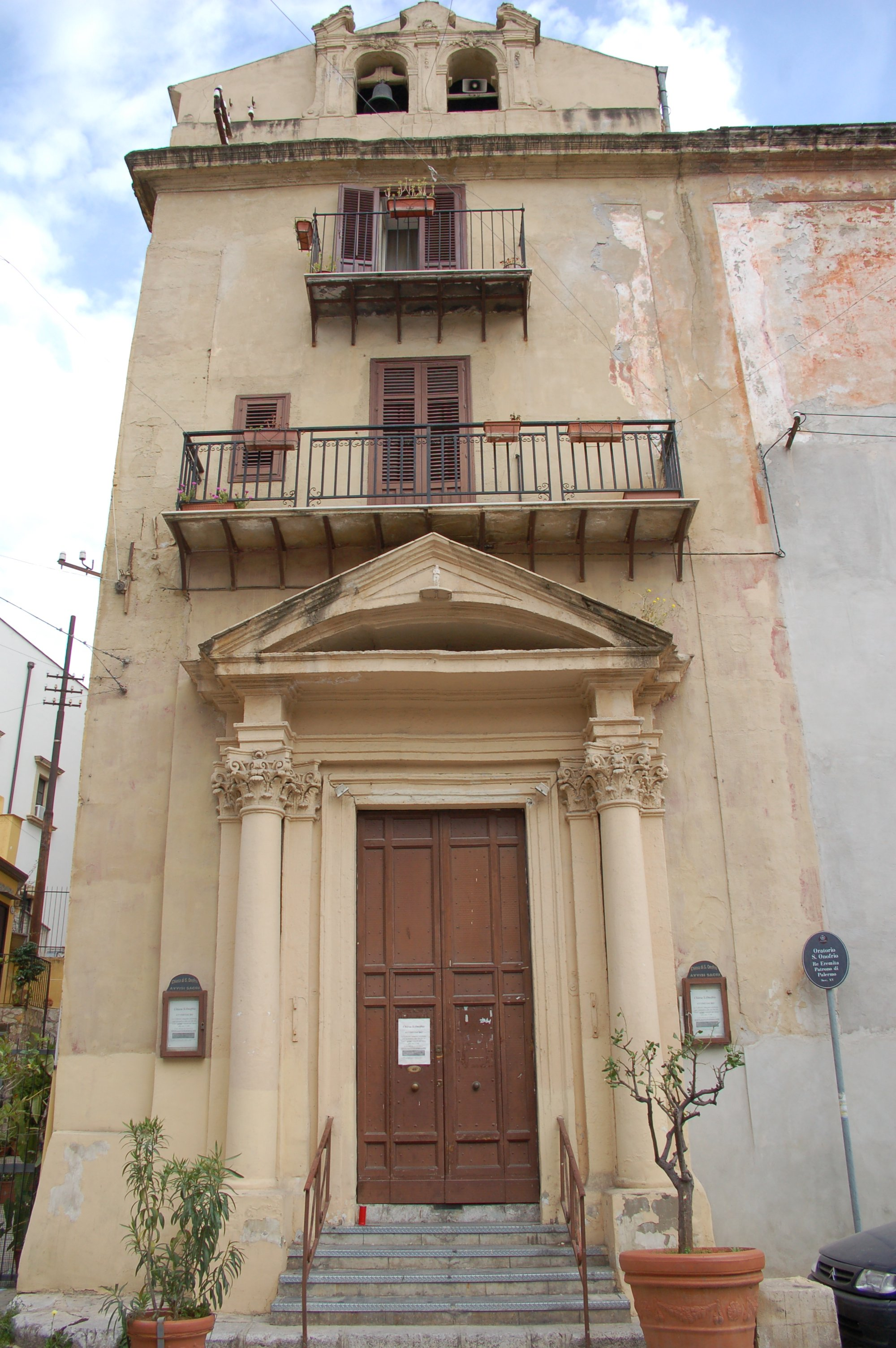 San Onofrio